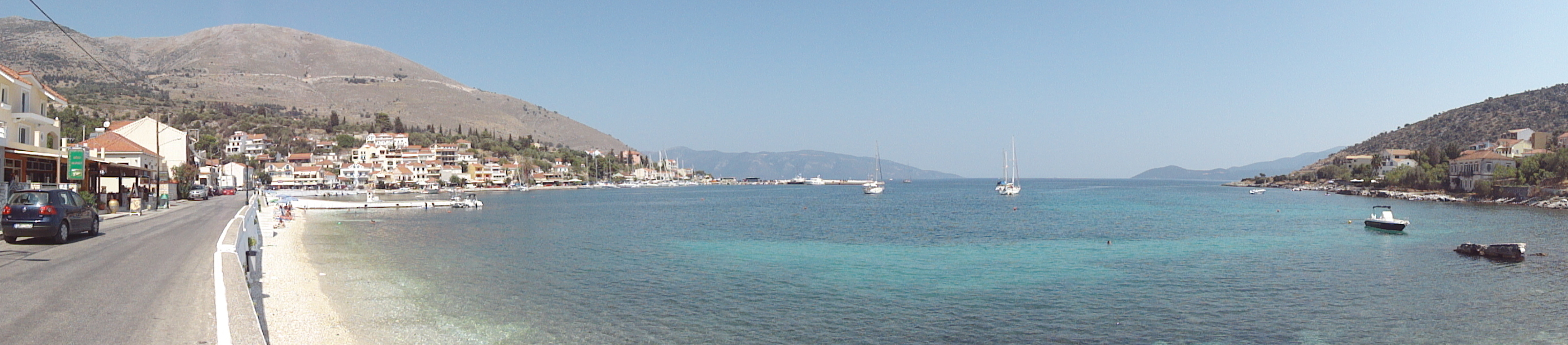 Agia Efimia